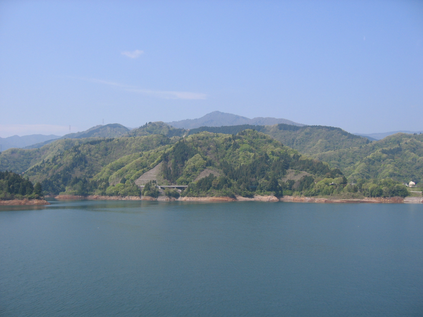 Lake Miyagase as seen from Kanagawa-R64, Kanagawa, Japan.